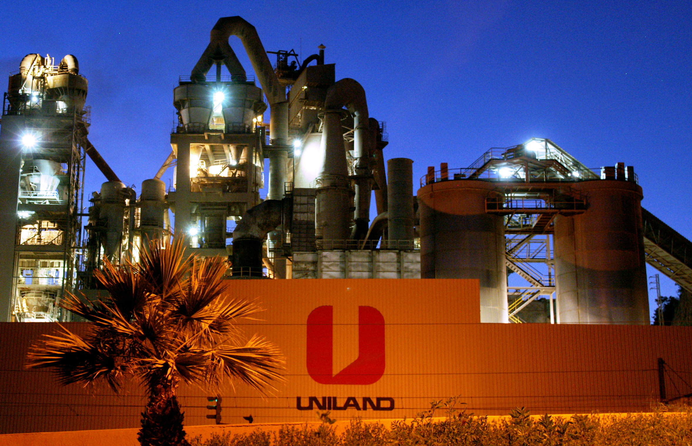 Cement factory in Vallcarca, Garraf, Spain